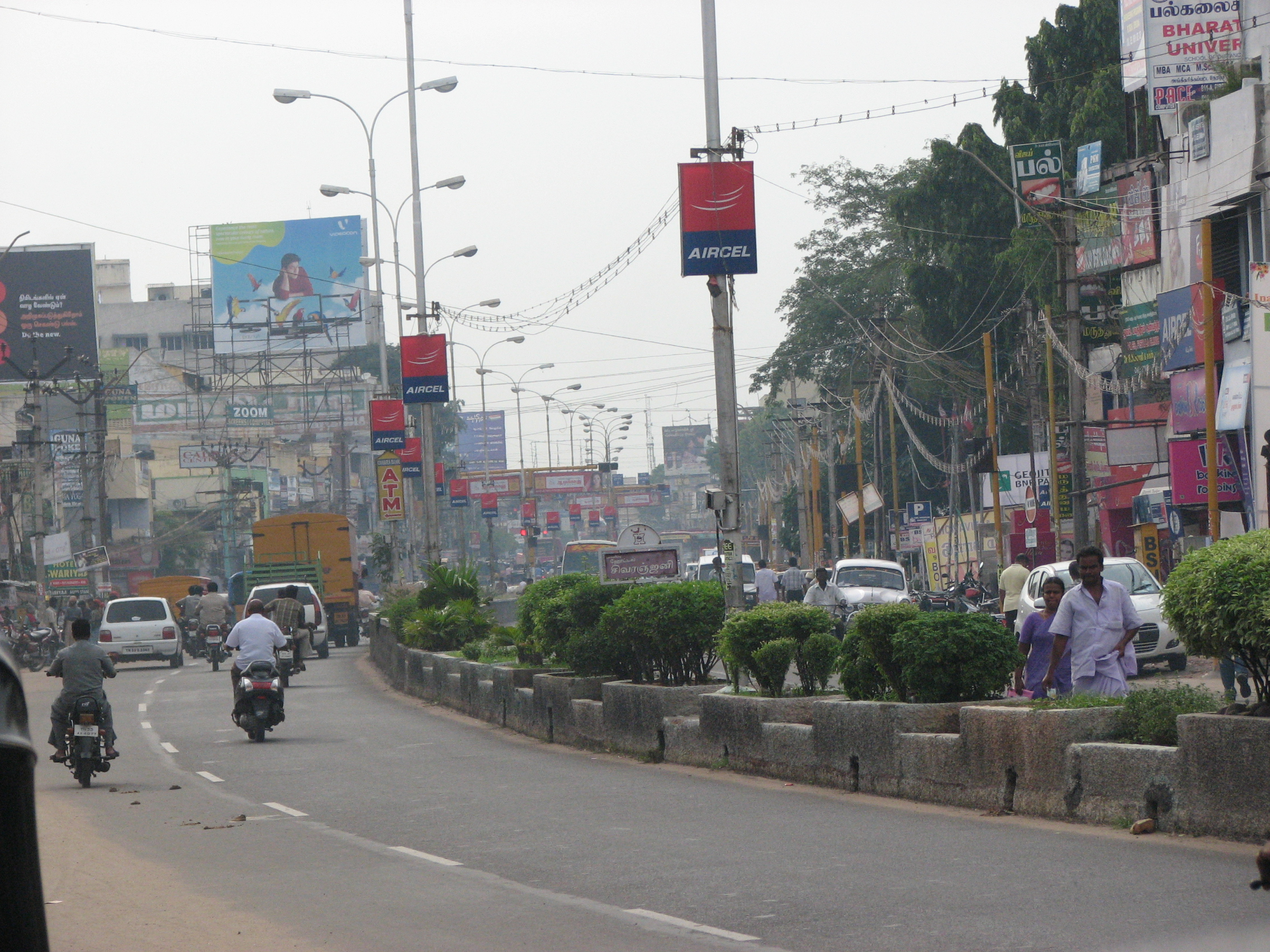 Brough Road near sivaranjani hotel, Erode, Tamil Nadu